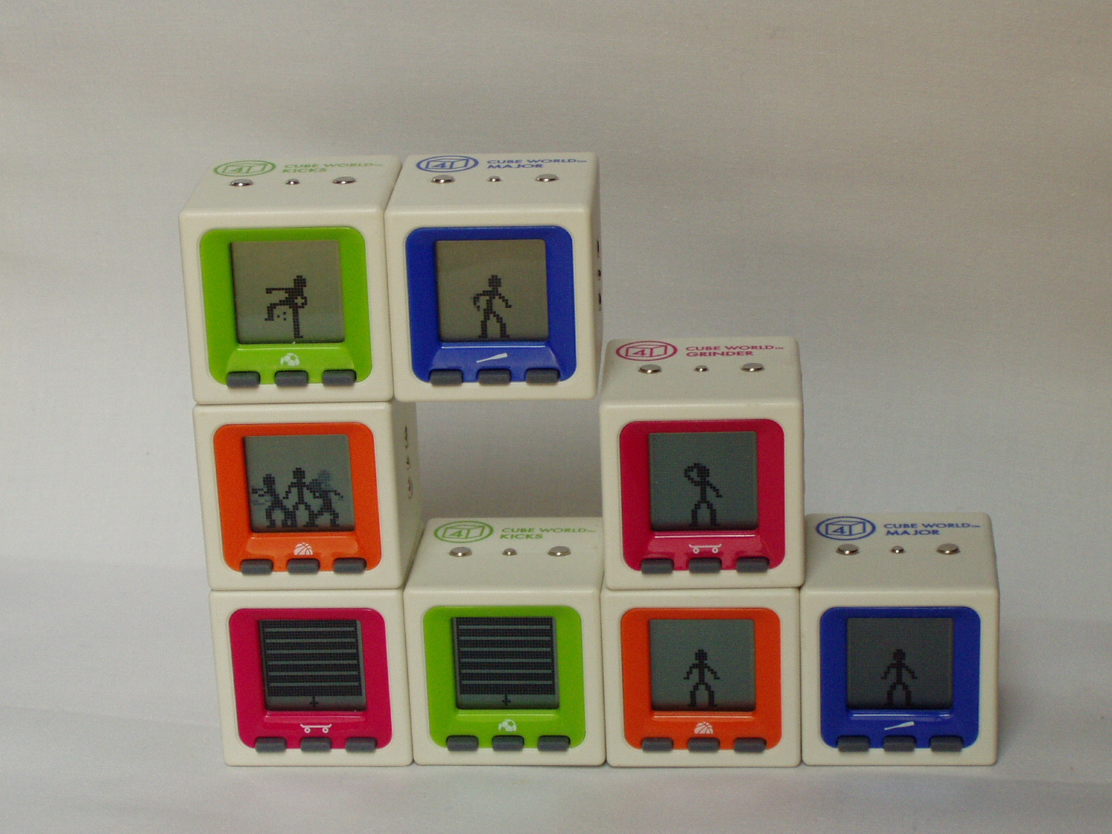 CUBE WORLD SERIES4 4set join.